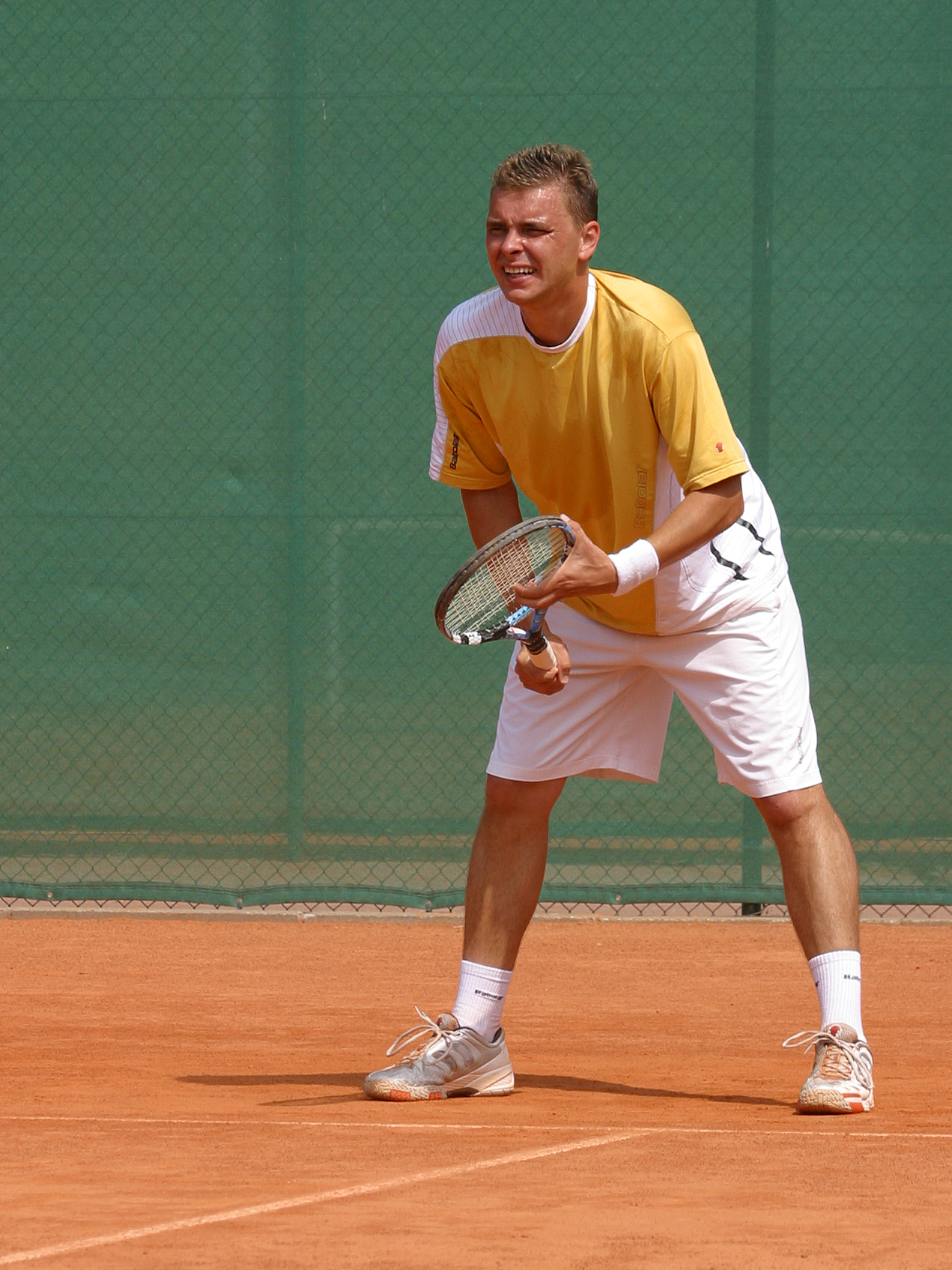 Maricin Matkowski during training before Orange Warsaw Open 2008